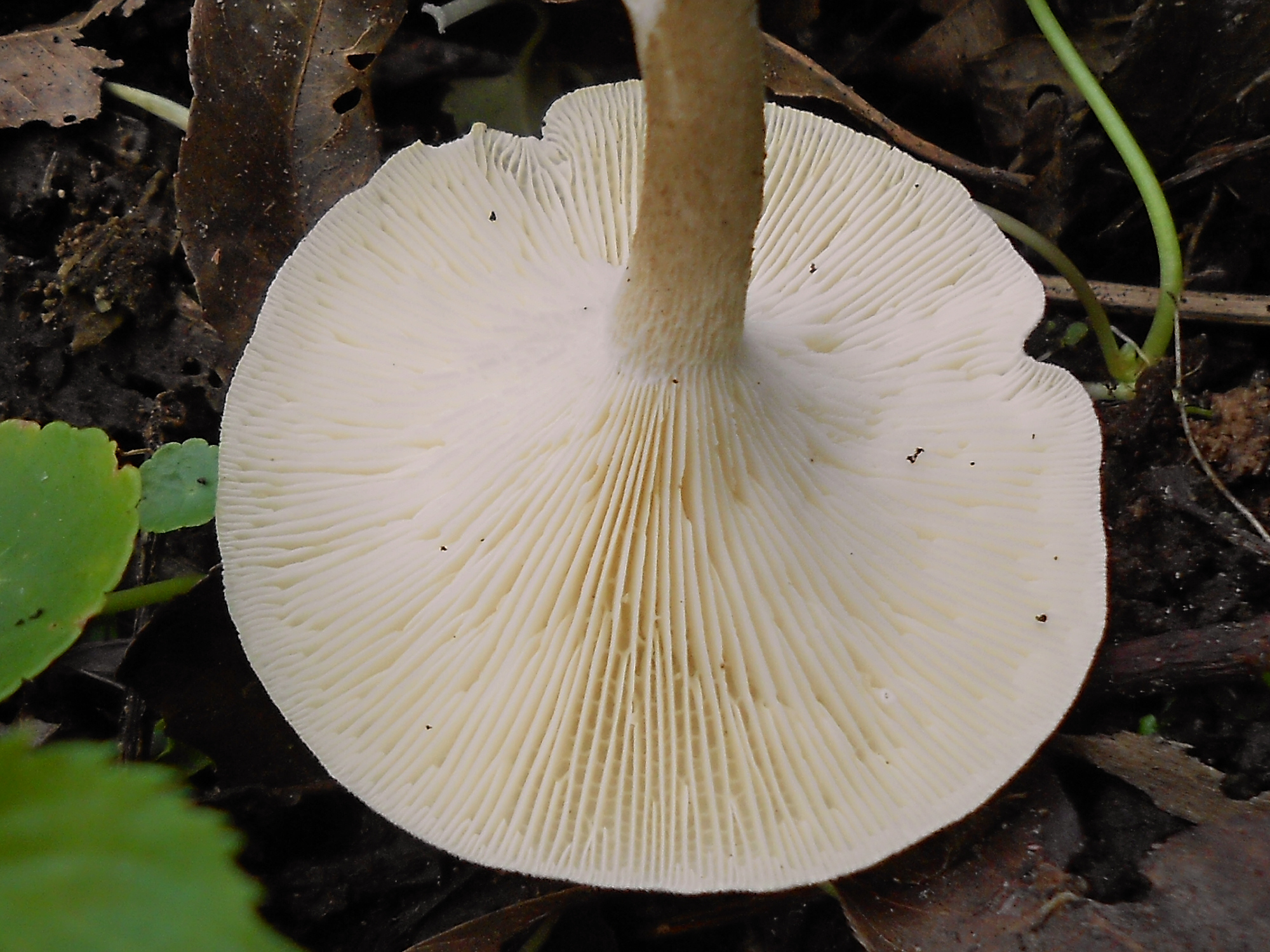 Lentinus tigrinus (Bull.) Fr. Image location: Gainesville, Florida, USA Recognized by sight For more information about this, see the observation page at Mushroom Observer.